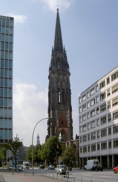 Ruin of St. Nikolai church in Hamburg, Germany.